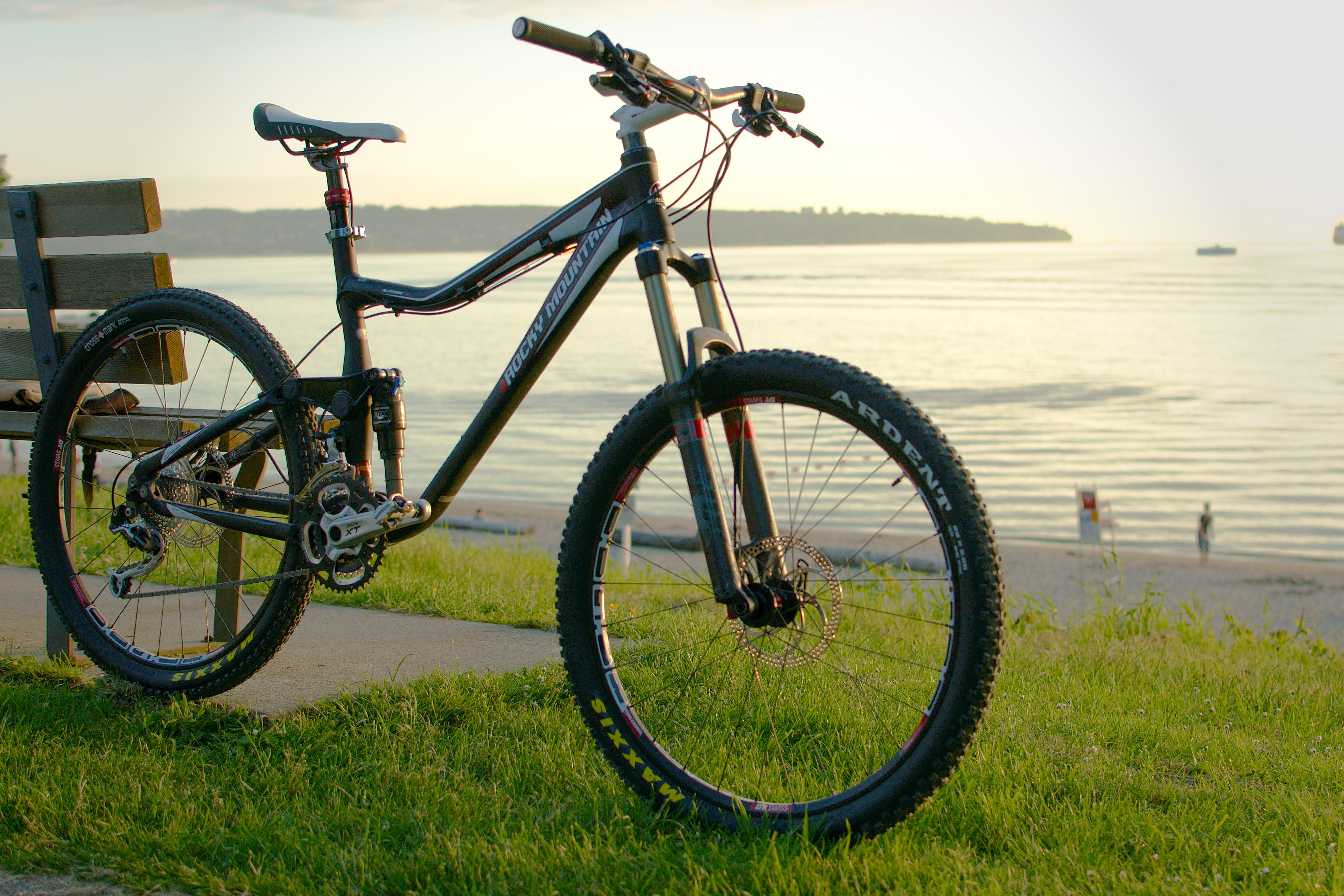 Rocky Mountain Altitude 70 Bicycle